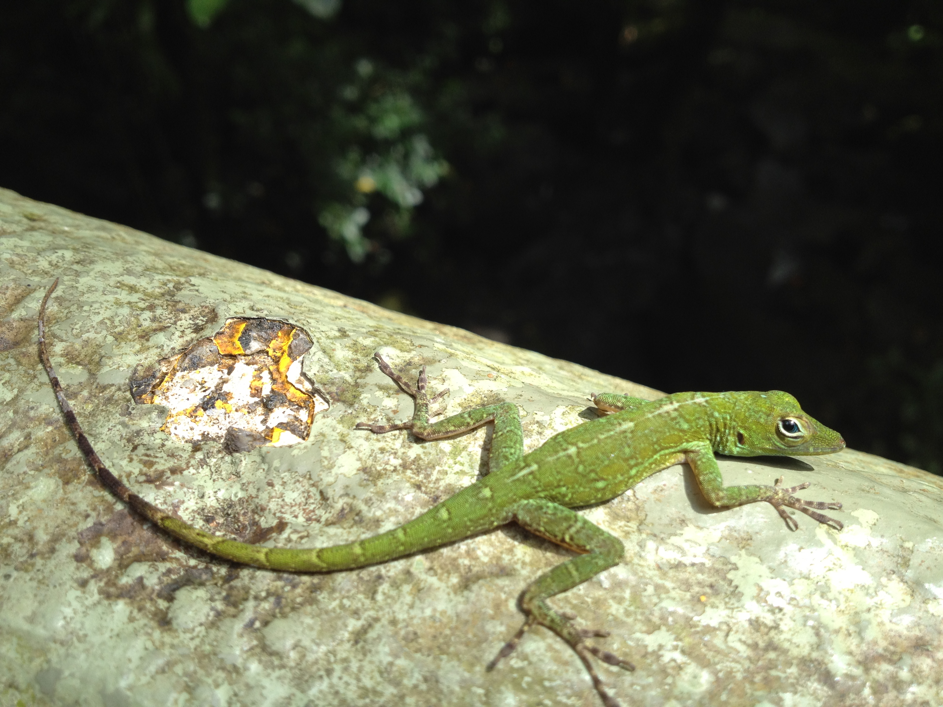 Anolis evermanni on tree trunk